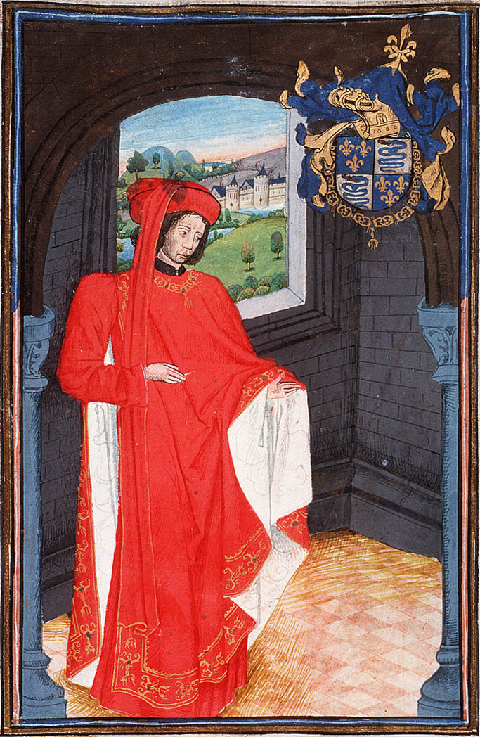 Statuts, Ordonnances et Armorial de l'Ordre de la Toison d'Or (Statutes, Ordonnances and armorial of the Order of the Golden Fleece) Place of origin, date: Southern Netherlands; 1473. Added sections: Southern Netherlands; 1478 or shortly after and 1491 or shortly after Material: Vellum, ff. 86, 249x187 (167x106) mm, 23 lines, littera cursiva (lettre bourguignonne). French. Binding: 18th-century brown leather Decoration: 1 full-page miniature (170x115 mm) with border decoration; 92 miniatures (185/155x120/100 mm); 1 historiated initial (80x90 mm) with border decoration; decorated initials with border decoration (ff., Added section: miniatures ; 4 drawings for miniatures (not finished) Provenance: Presented in 1473 by Gilles Gobet, King of Arms of the Order of the Golden Fleece, to Charles the Bold, Duke of Burgundy and the other Knights during the Chapter of the Order held at Valenciennes; Treasure of the Golden Fleece, Brussls; taken away by the Treasurer C.-F. Humyn (d. 1735) or his daughter C.Ch. de Corte; by legacy to her daughter M.-L. de Corte, wife of Ph.-E. de Poederlé; purchased in 1781 at the Poederlé sale by G.-J- Gérard of Brussels; acquired in 1832 as part of the Gérard collection (no. A 27)